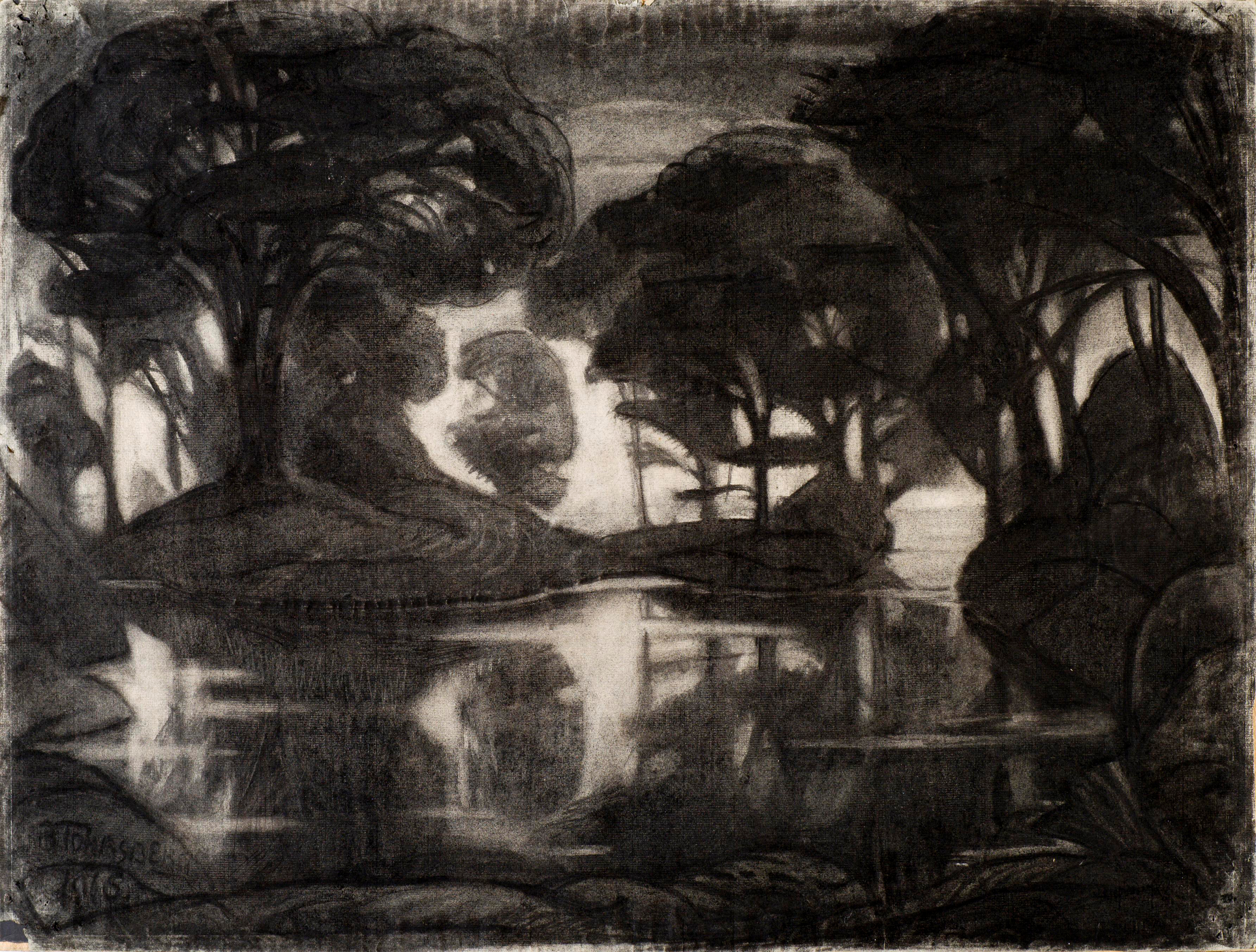 Balder Tomasberg. Heroic Landscape. 1916. Charcoal. Tartu Art Museum. MUIS:TKM TR 6702 B 1782